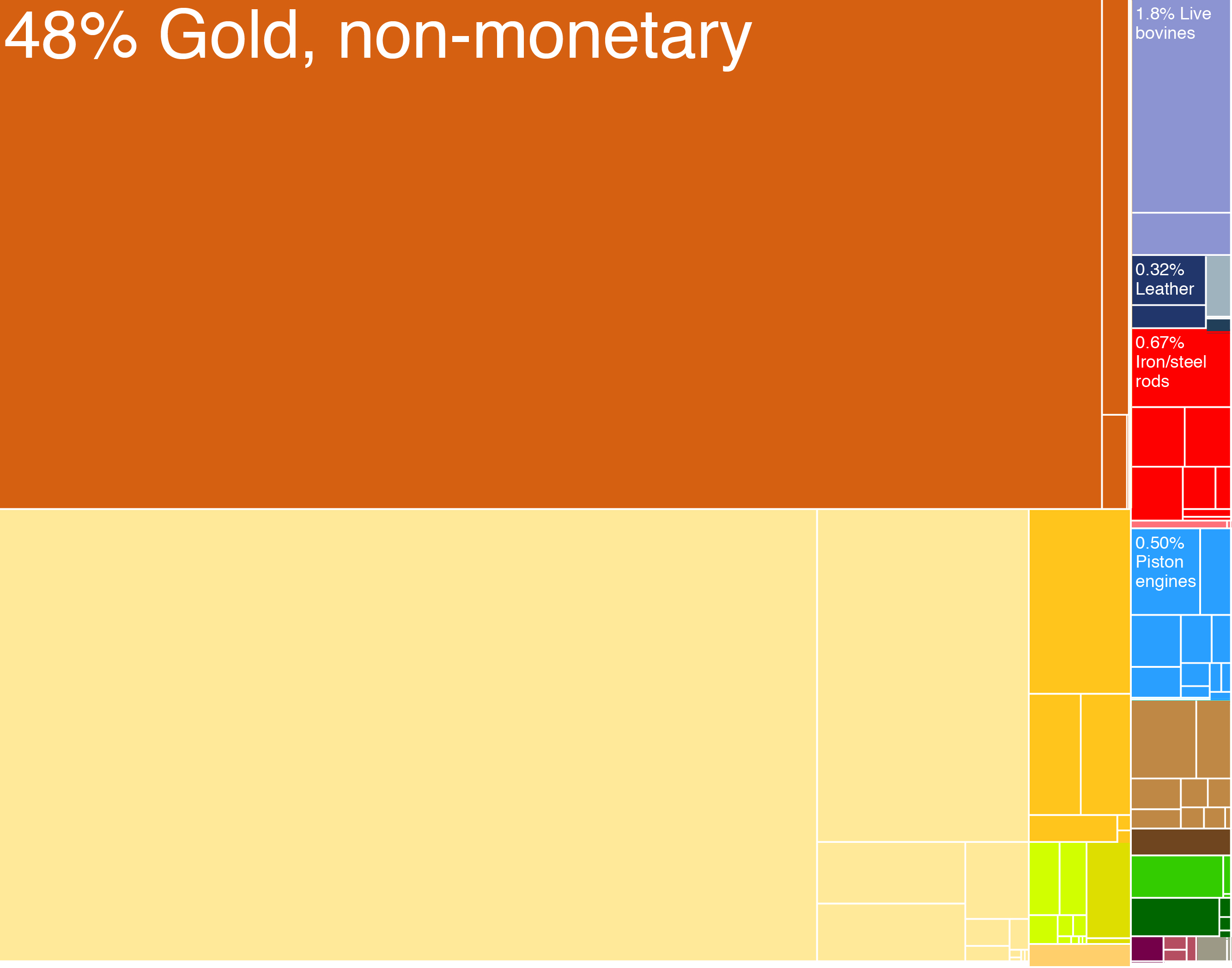 Exports of Burkina Faso Treemap. Year 2009